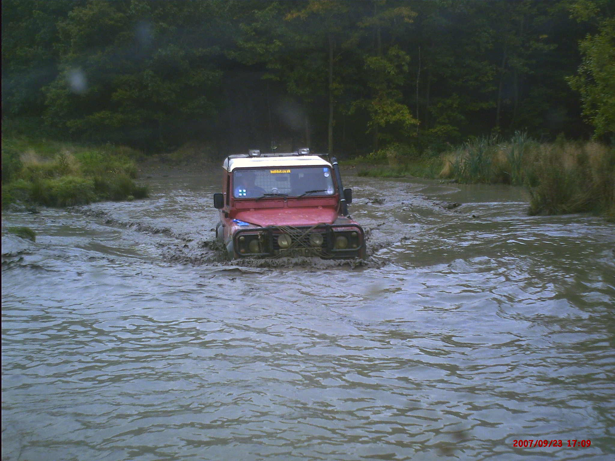 Land Rover 90 of Hull 4x4 Club Wading at Parkwood Off-road site.